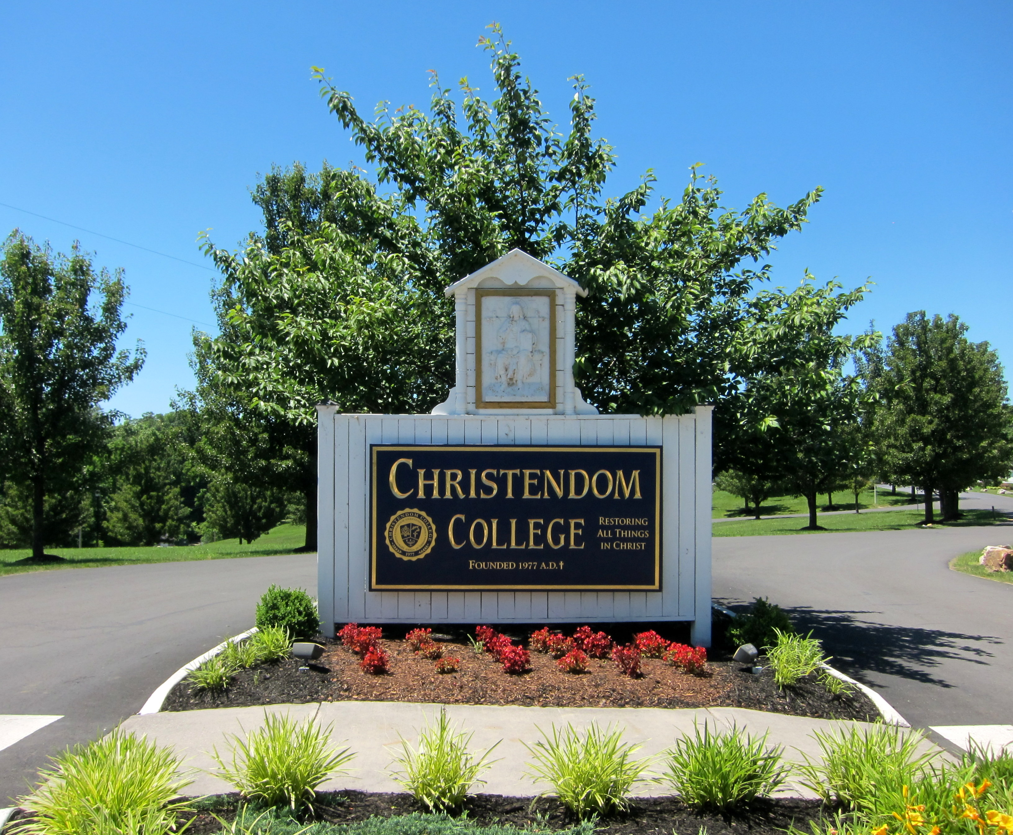 Entrance sign to Christendom College, a liberal arts Catholic college in Front Royal, Virginia, United States.